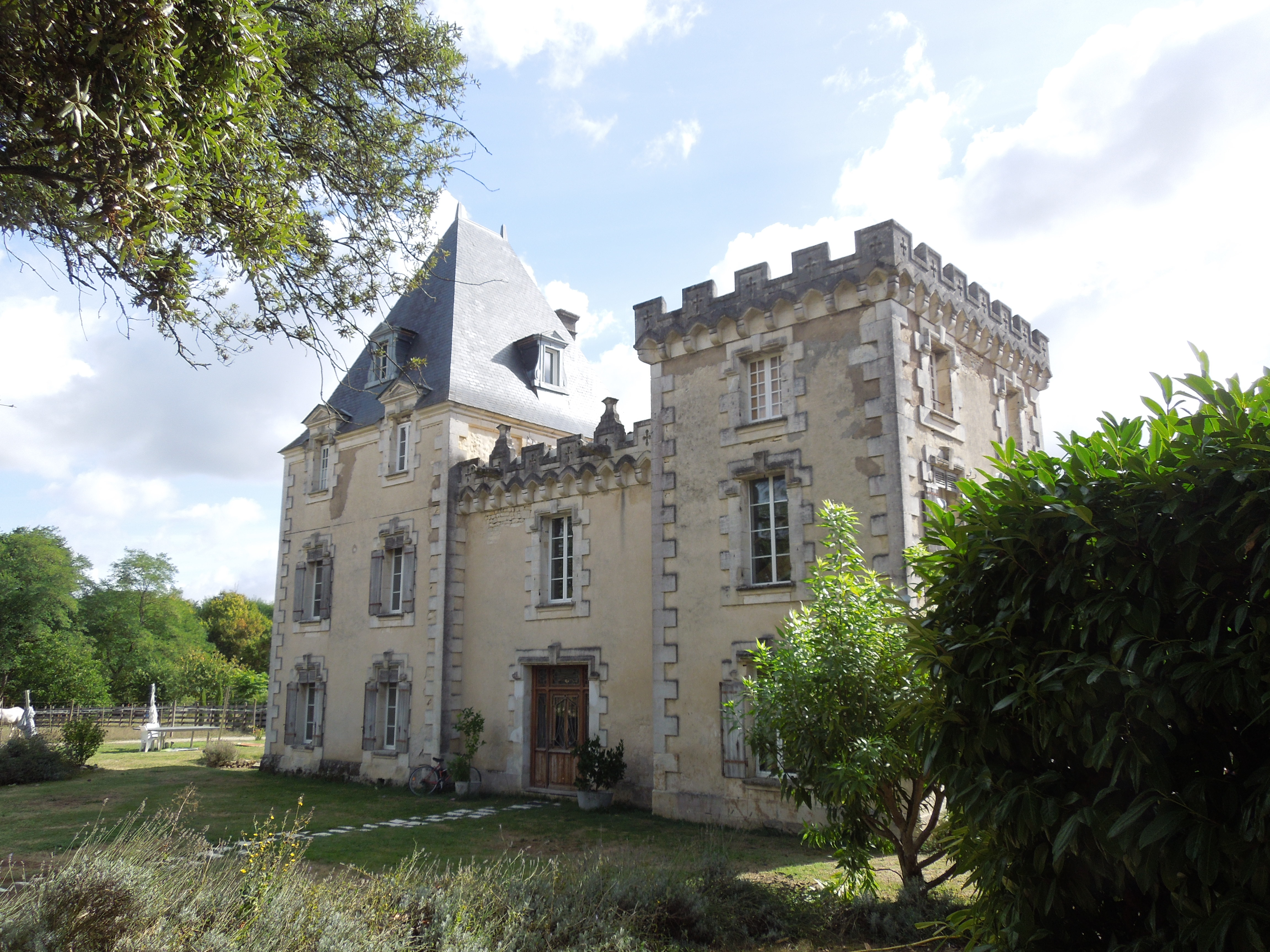 Chateau de Favières near Mosnac, view from northwest